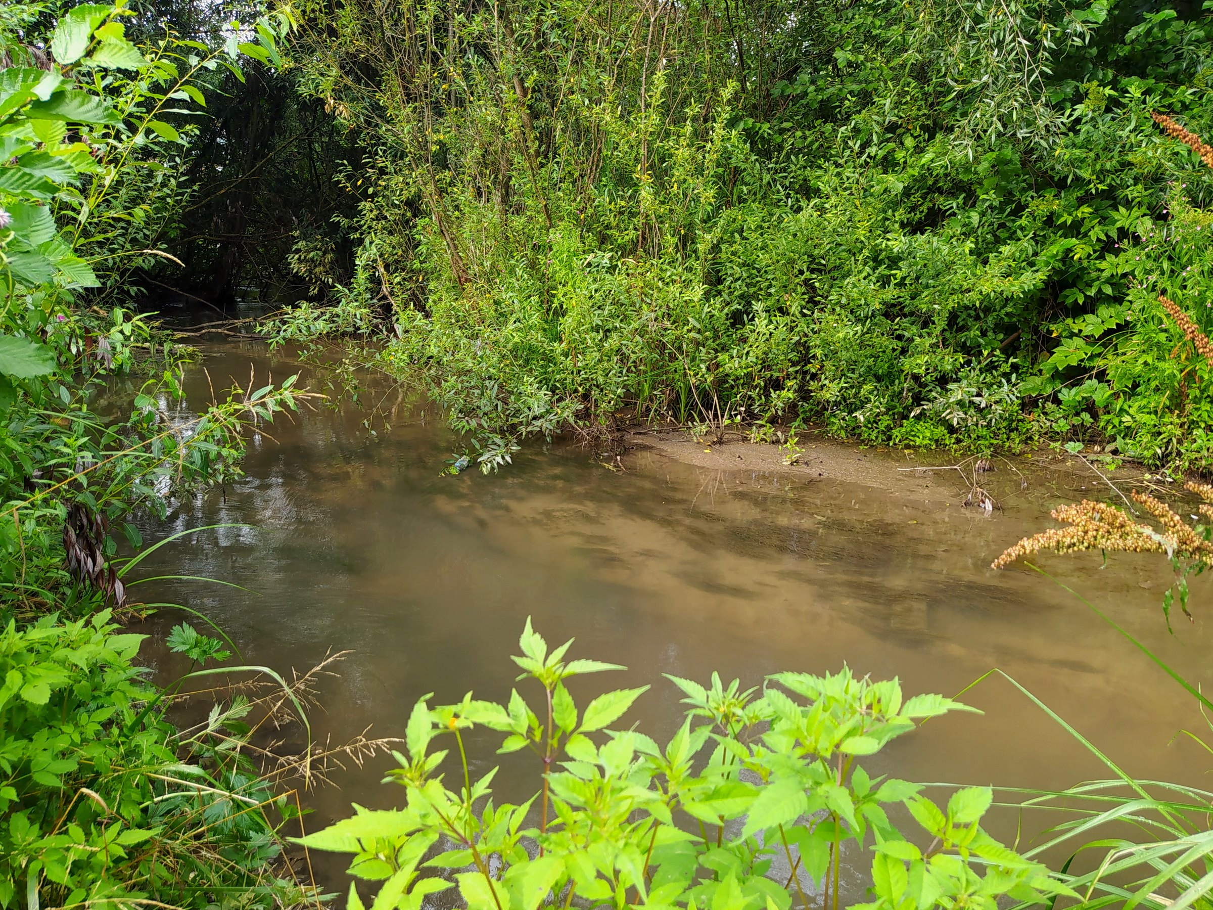 The Cheboksarka river (a tributary of the Volga) within the city of Cheboksary (Chuvashia), not far from the mouth